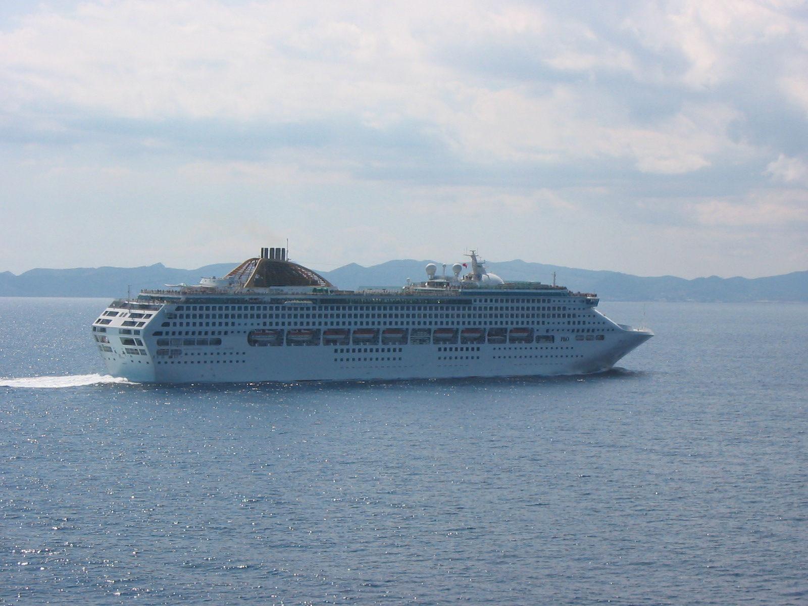 P&O Adonia now Sea Princess